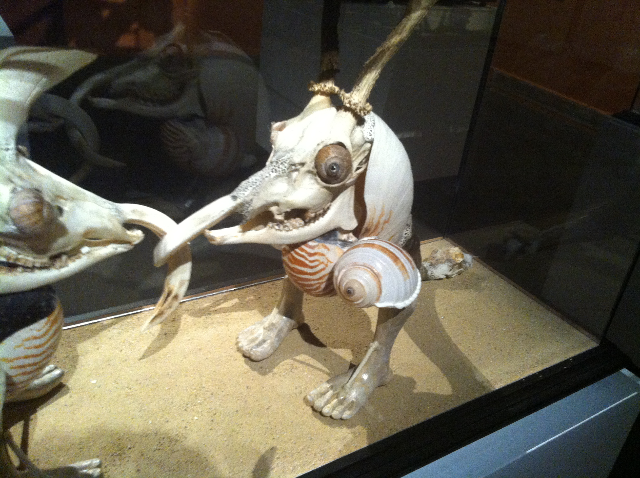 Metamorphosis exhibit presents the works of four key figures in the field of animated films: the pioneering Polish animator (born in Russia) who made his home in Paris, Ladislas Starewitch (1882-1965), the Czech master, Jan Švankmajer (1934), and the Quay Brothers (1947), who were born in Pennsylvania but have lived in London for the past three decades. Three unique filmographies that, nonetheless, have a great deal in common: an eccentric universe of slumber where innocence, cruelty, voluptuousness, magic and madness coexist. A troubling, poetic, lucid and, at times grotesque, at times phantasmagorical, landscape of people who love the unproductive and futile.